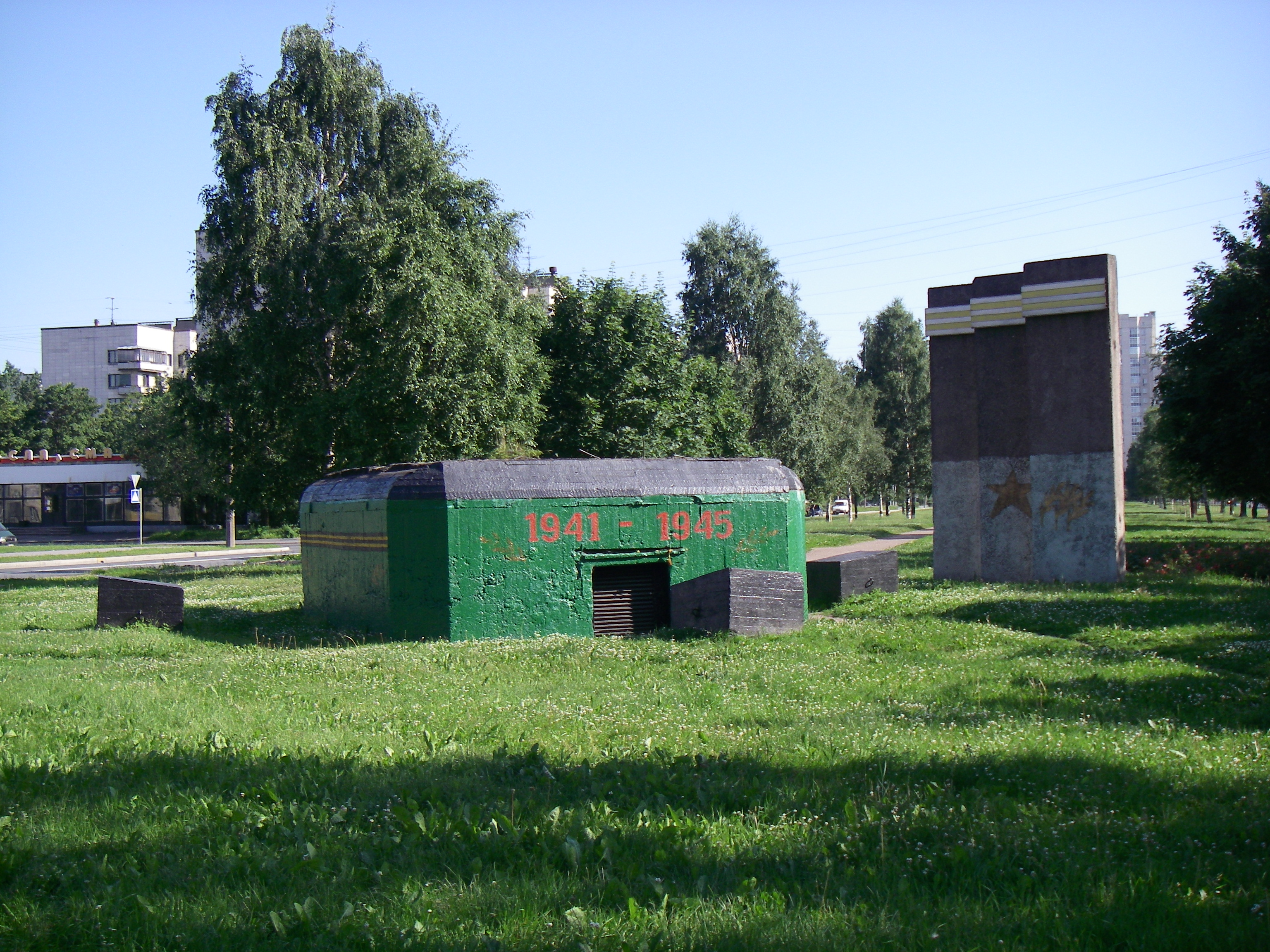 Memorial pillbox at Varshavskaya street